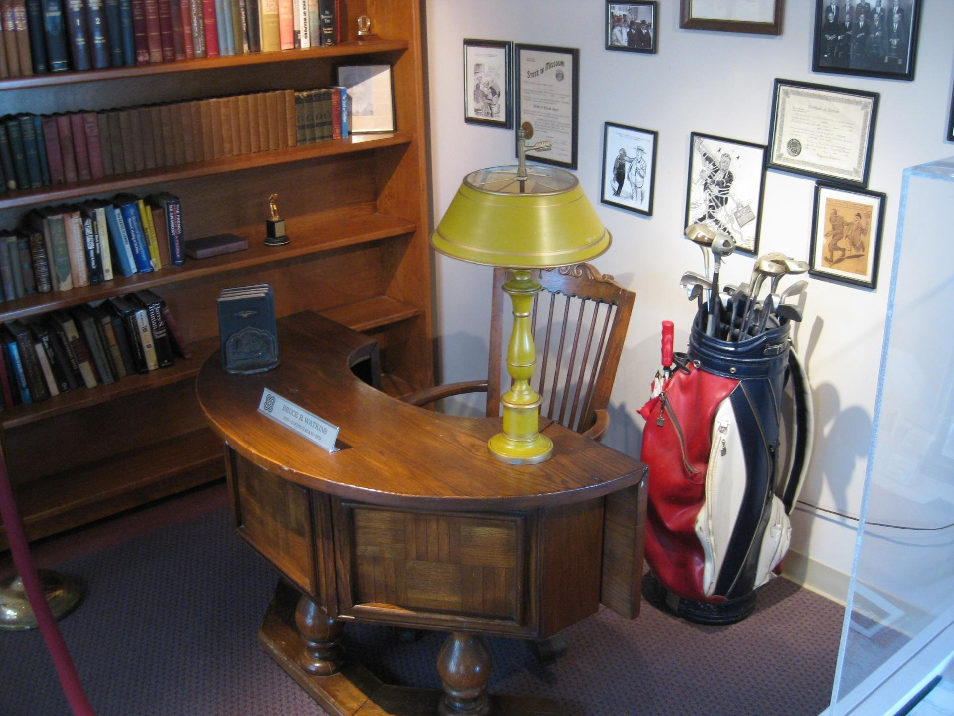 Akin to Harry Truman's "Oval Office" re-created at the Truman Presidential Library in nearby Independence Missouri, this photo shows the actual desk and other mementos from Bruce R. Watkins' office, in which he acted in different capacities through the 1960s and 1970s.